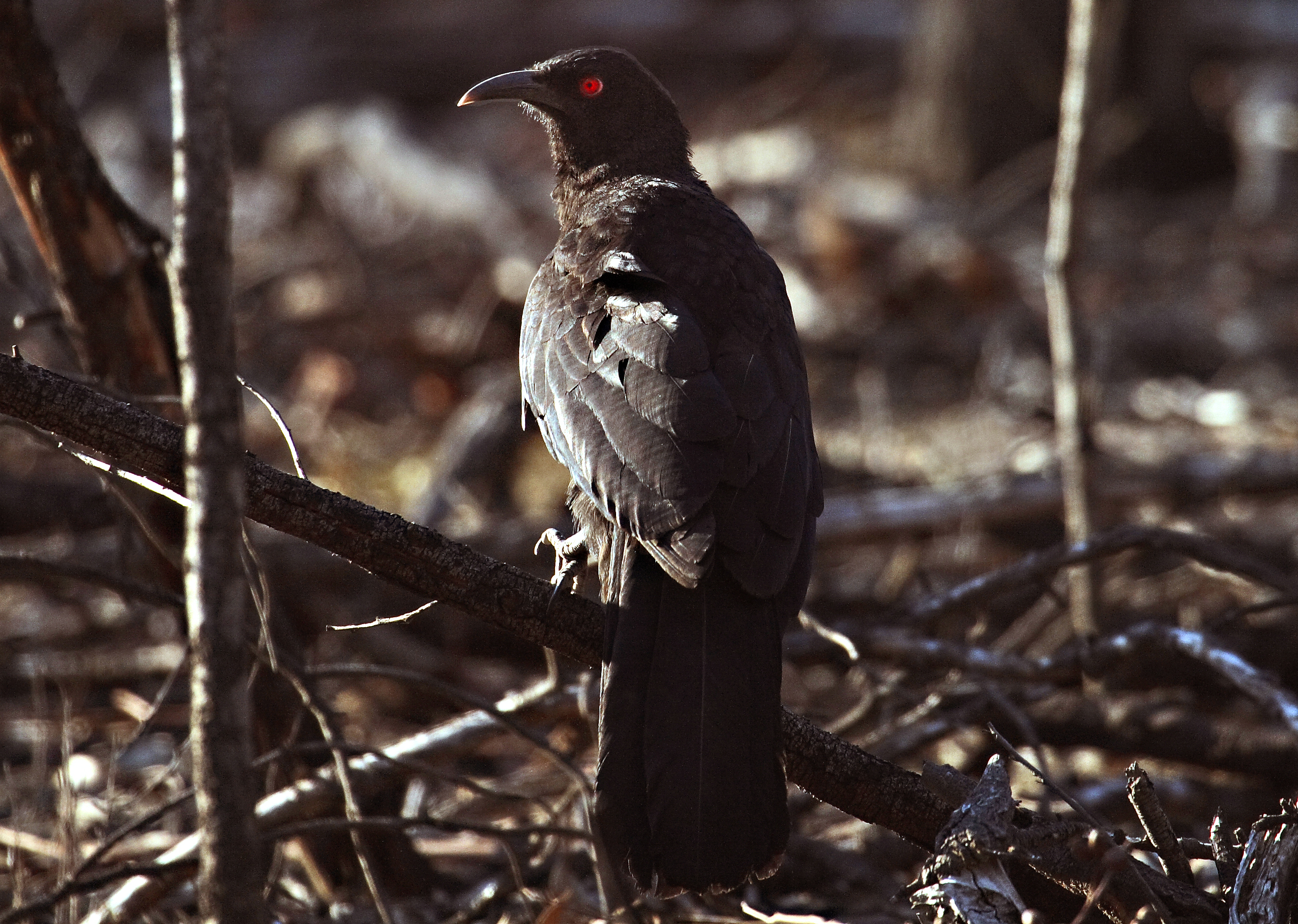 White-winged Chough (Corcorax melanorhamphos), You Yangs, Victoria